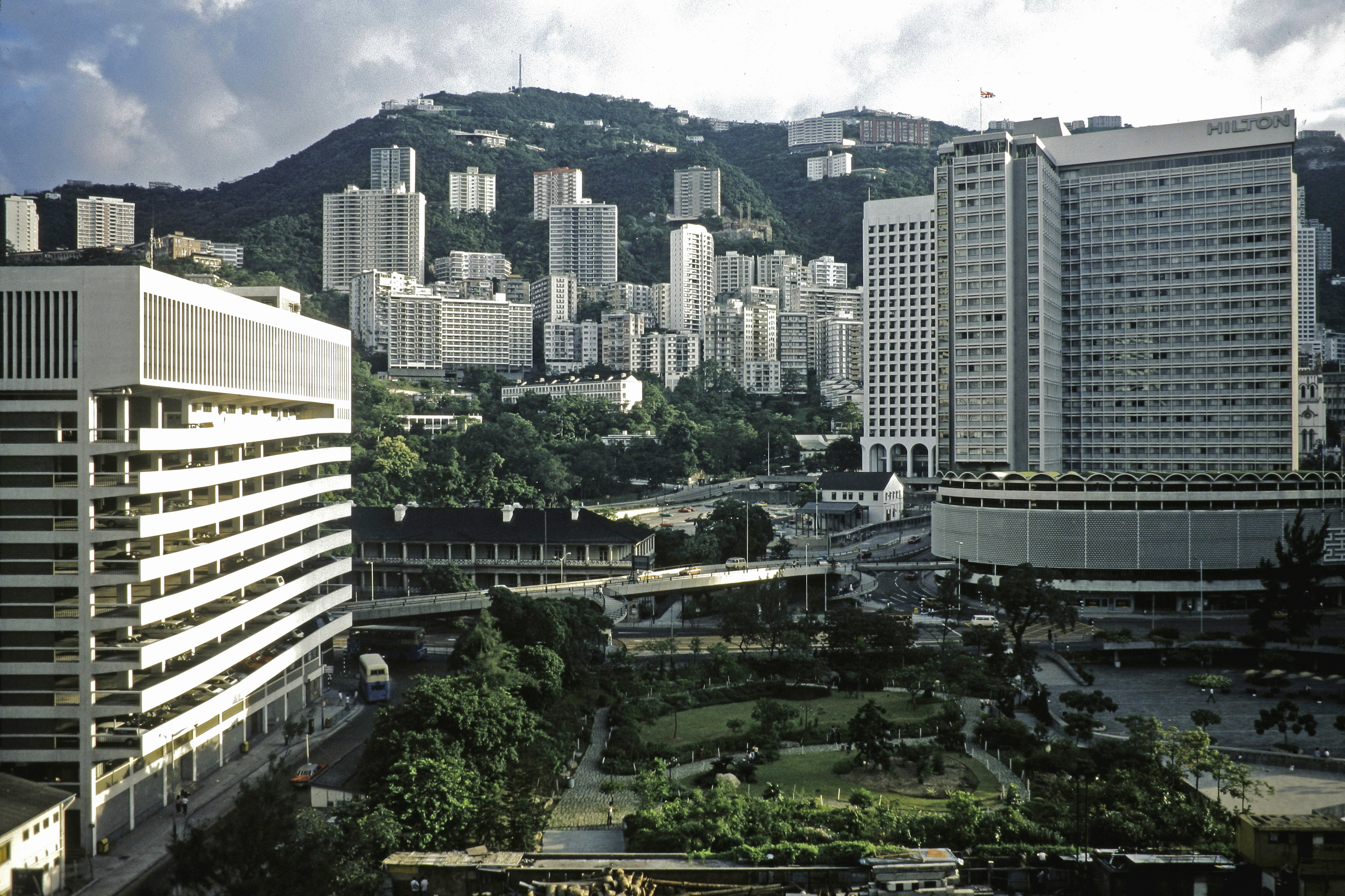 Hong Kong Hilton, End of August 1980, View from the former Furama Intercontinental Hotel towards Peak